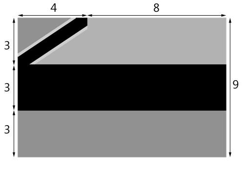 The flag of Zanzibar construction sheet. Flag drawn by Mysid; graph drawn by Makakaaaa